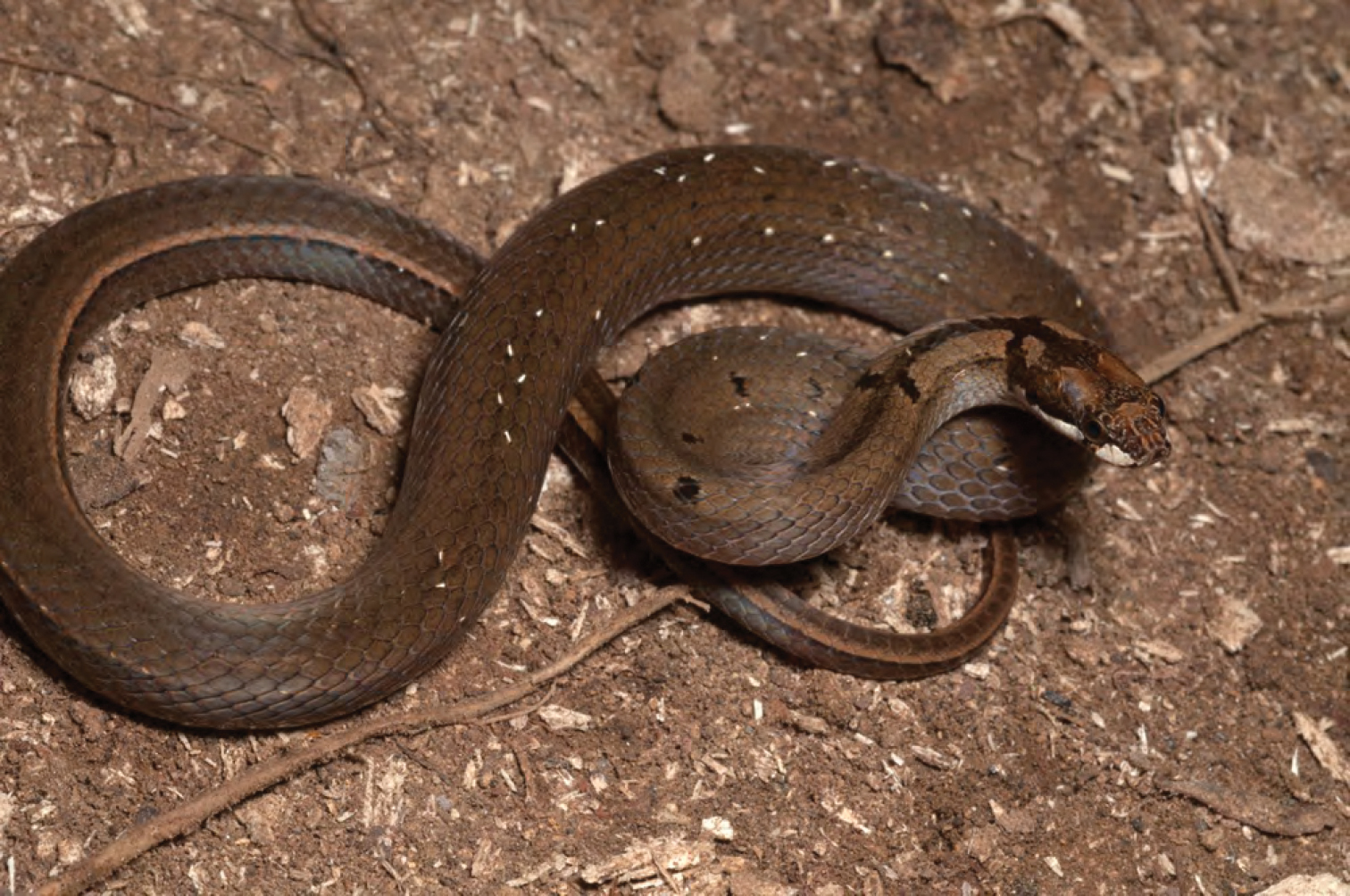 Hologerrhum philippinum (KU 330056) from 650 m asl, Mt. Cagua. Photo: RMB.